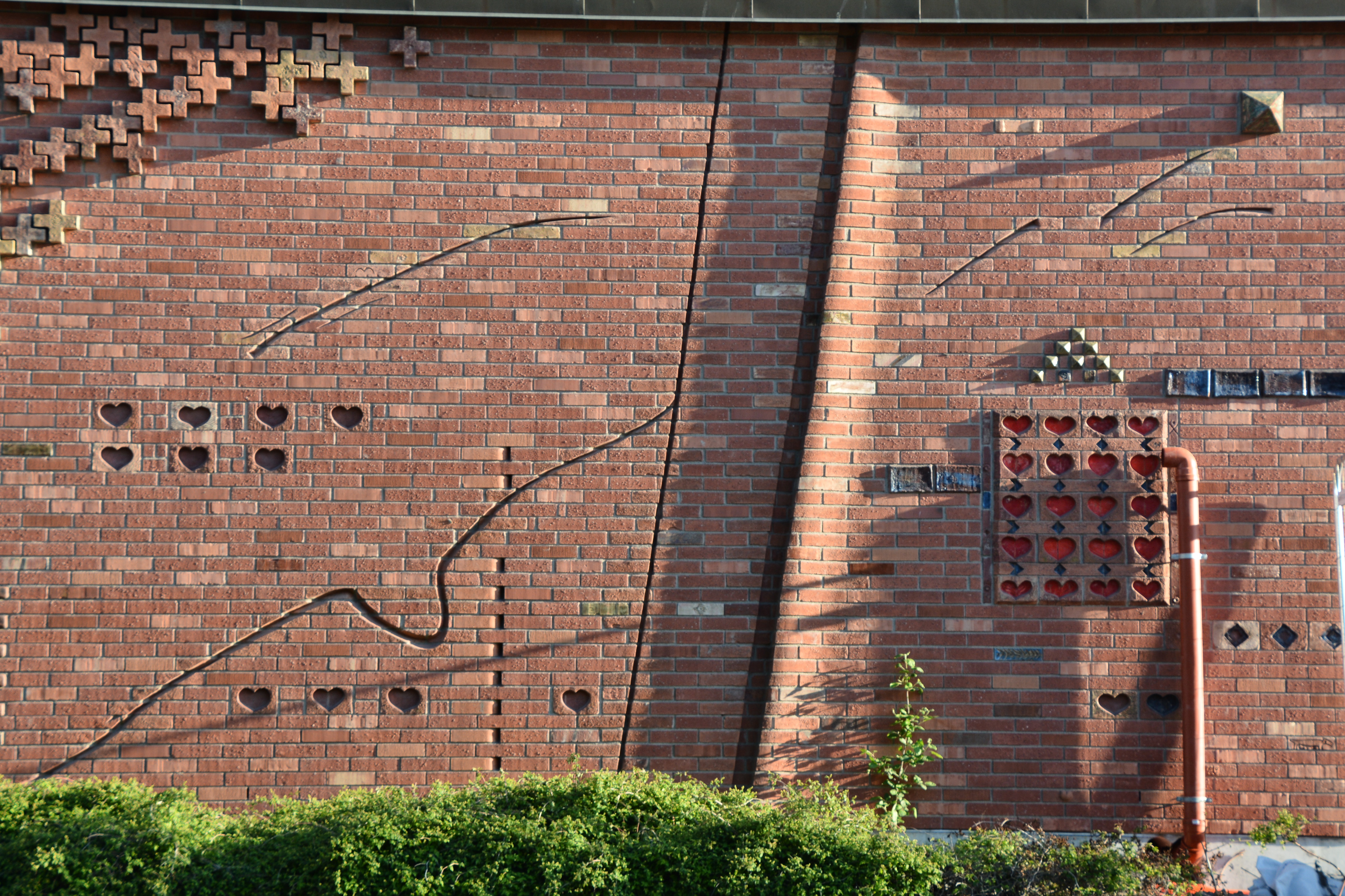 Lillemor Petersson's Stentecken, Sankt Görans sjukhus, Stockholm, detail